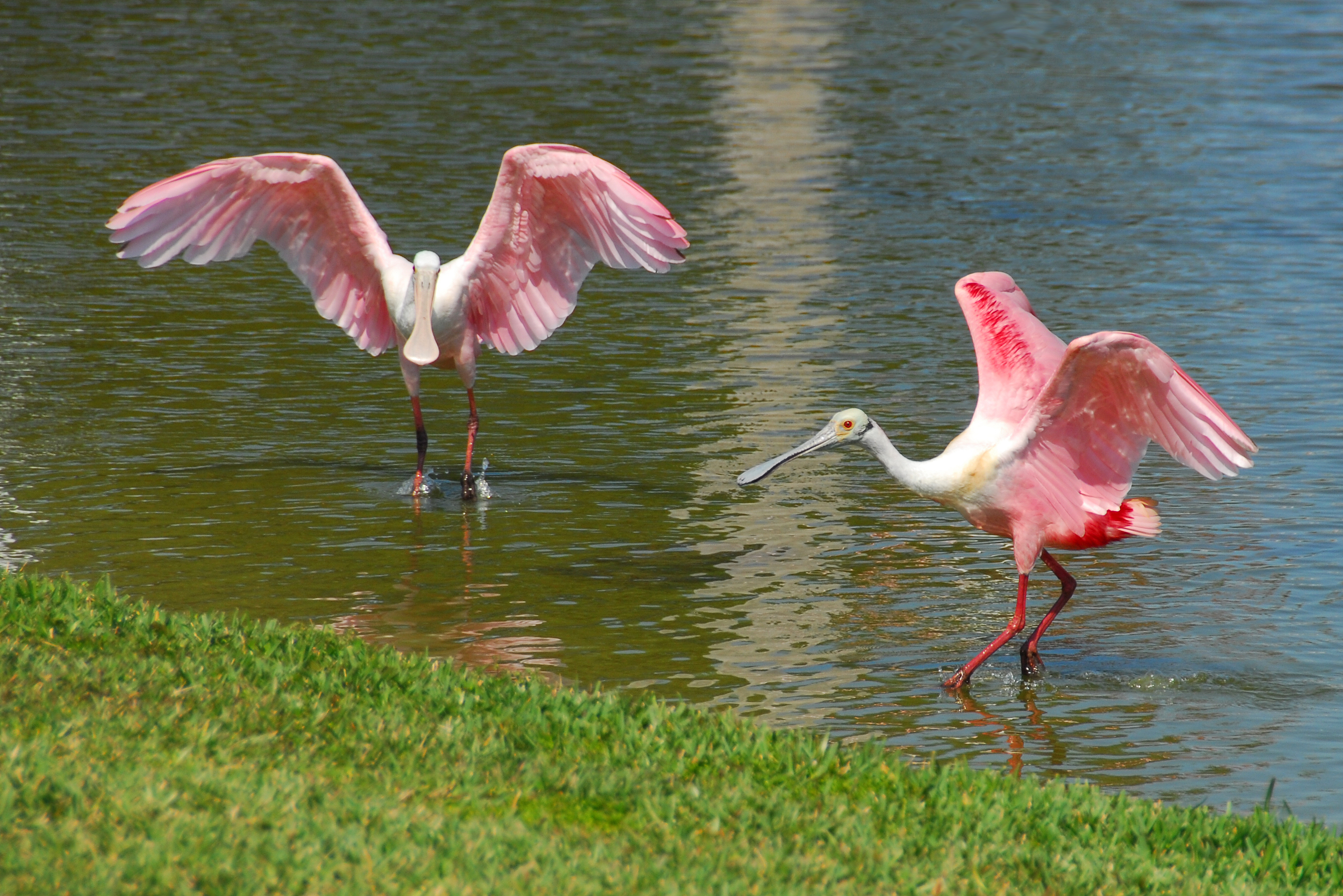 Roseate Spoonbills at St. Petersburg, Florida, USA.